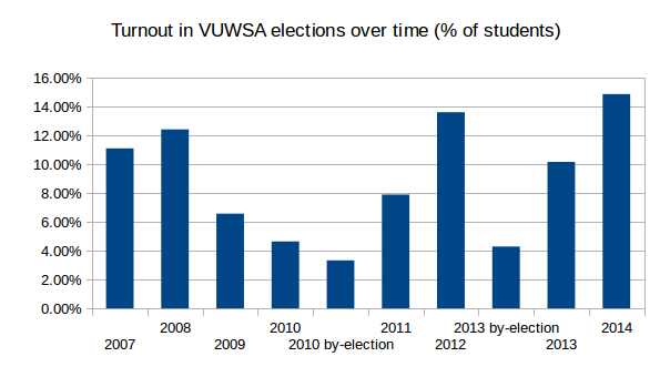 A graph showing approximate turnout in VUWSA elections over the last few years. Data on the number of votes is sourced from the election results on the VUWSA website and VUWSA annual reports. Data on the number of students is sourced from VUW annual reports and is total students, not EFTS. Note: this graph does not take into account that for a short time after 2012 not all students were eligible to vote - I didn't have data on VUWSA membership so just looked at total student numbers. I also estimated that the number of students for the 2014 year is 22,000, as the official figure won't be released until the 2014 Annual Report I think.